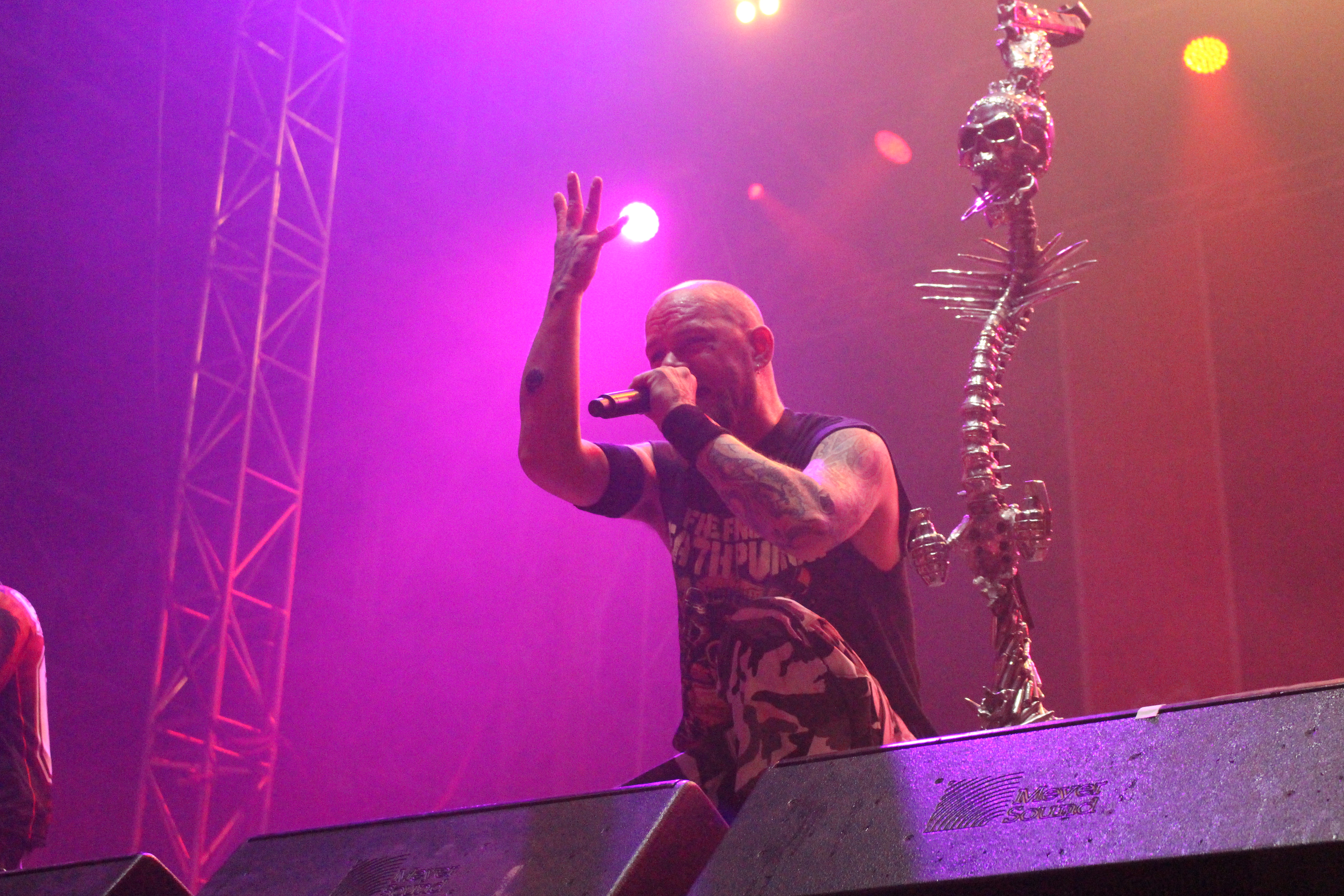 Festivalsommer This photo was created with the support of donations to Wikimedia Deutschland in the context of the CPB project "Festival Summer".